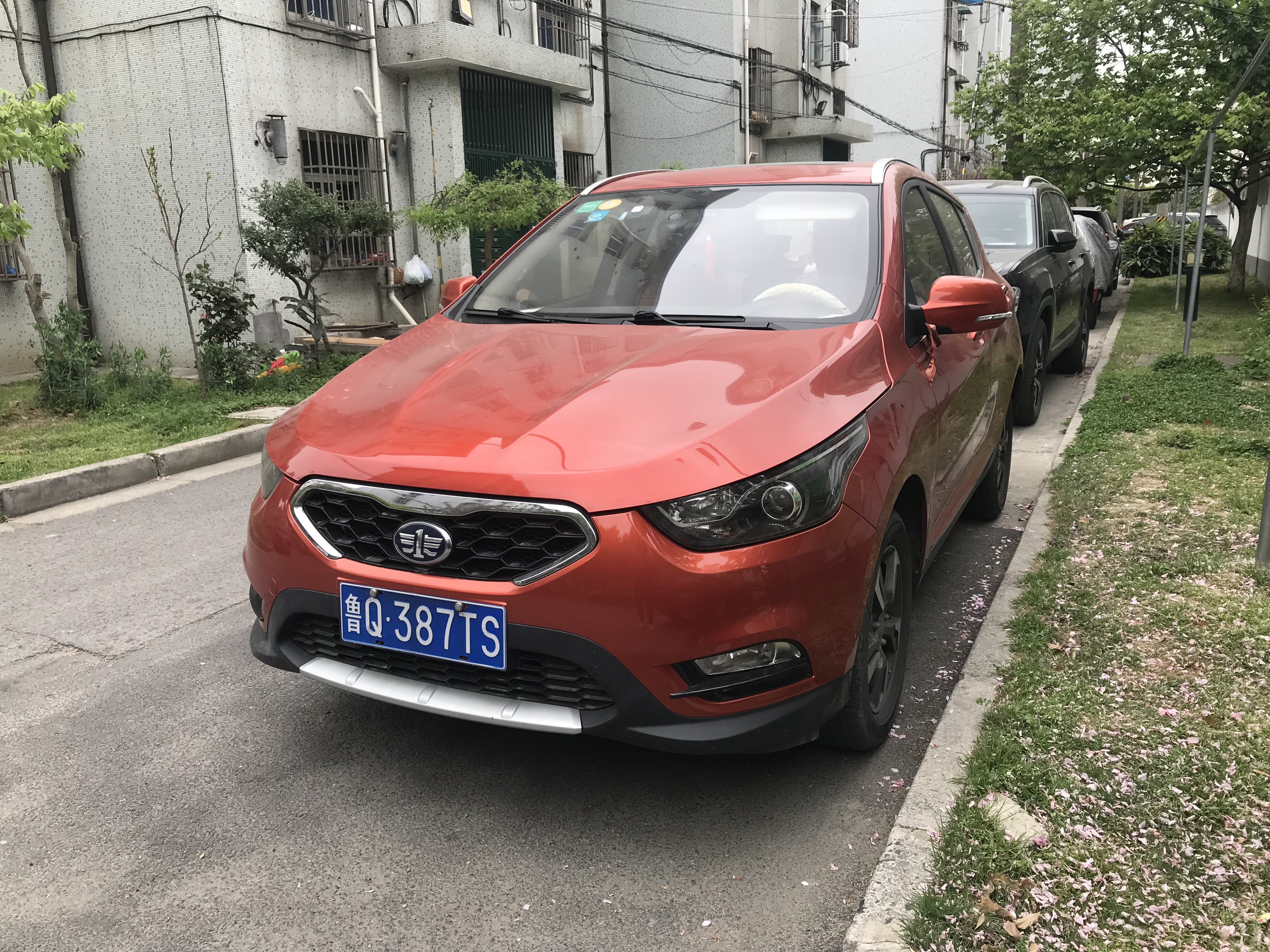 Junpai D60